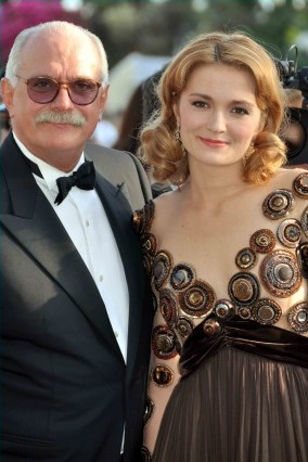 Nikita Mikhalkov and his daughter Nadedja Mikhalkov at the Cannes film festival